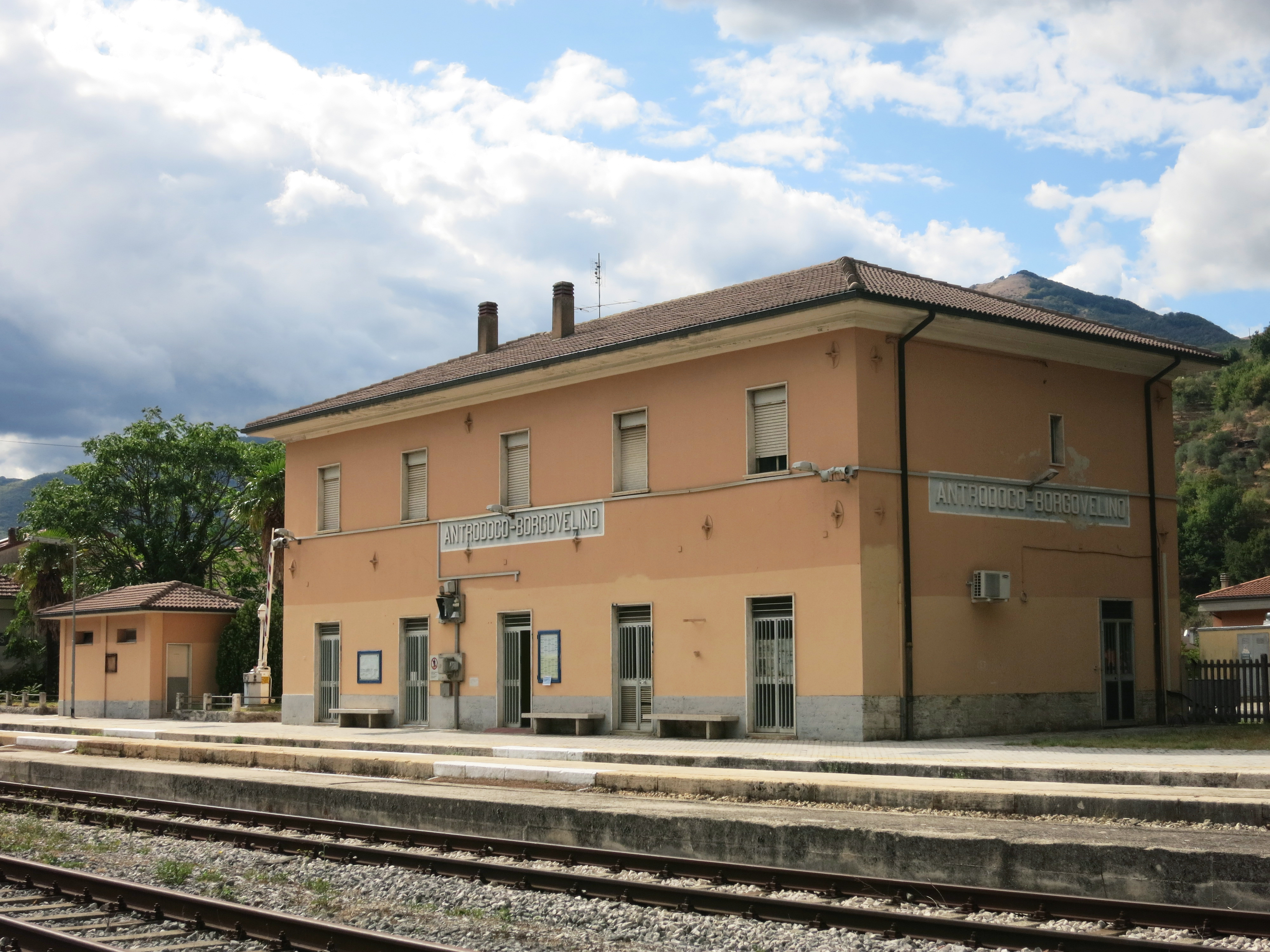 Antrodoco-Borgo Velino train station (province of Rieti, Lazio, Italy), on the Terni-Rieti-L'Aquila-Sulmona line.